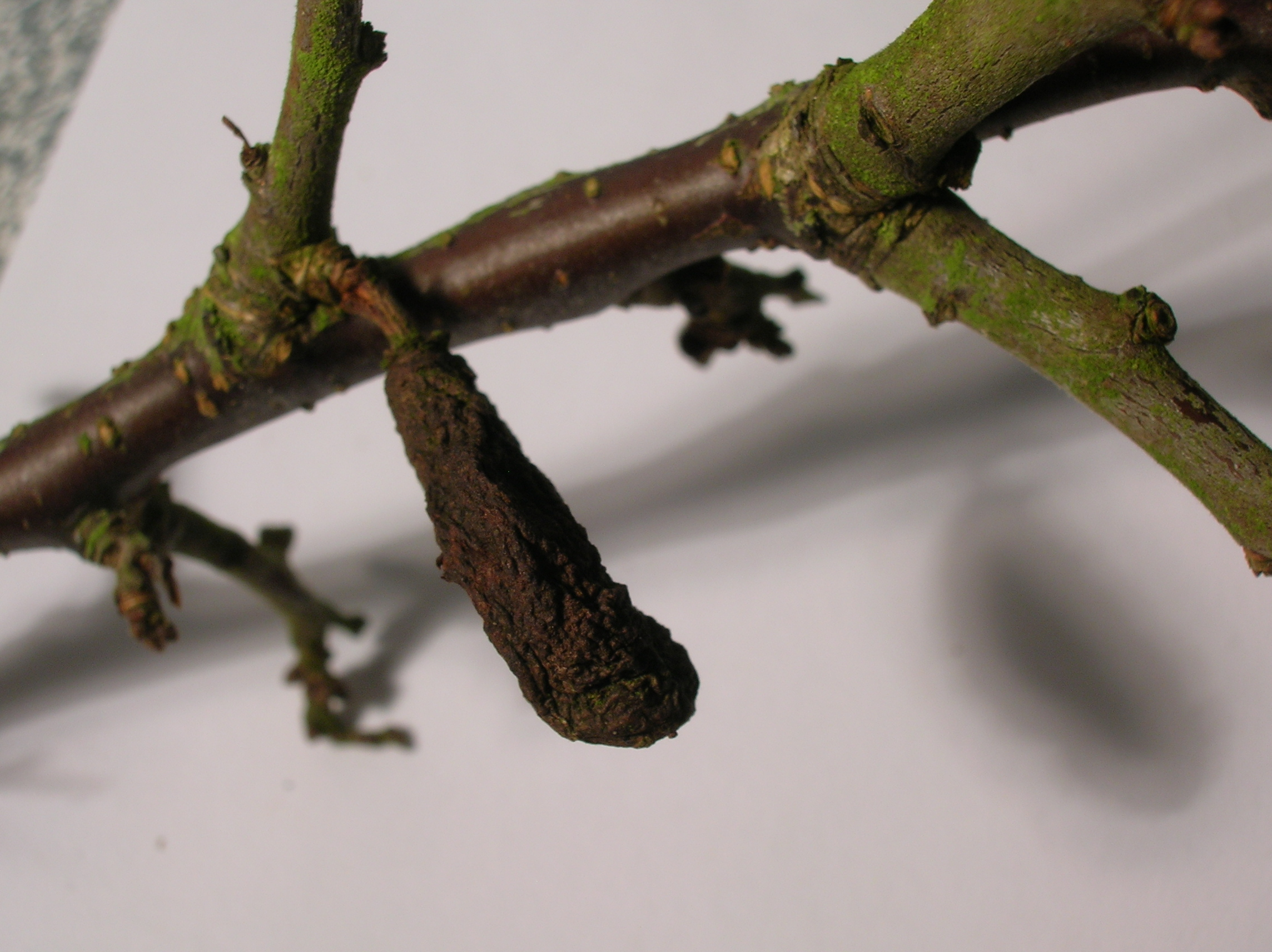 Pocket Plum, Taphrina pruni, on Prunus spinosa. Eglinton Country Park, Ayrshire, Scotland